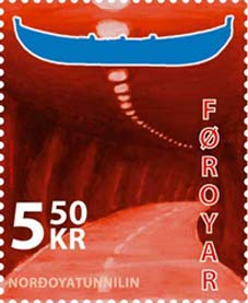 Stamp FO 567 of the Faroe Islands: Norðoyatunnilin, the new tunnel between Eysturoy and Klaksvík